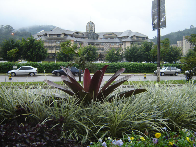 City of Joinville, Santa Catarina.